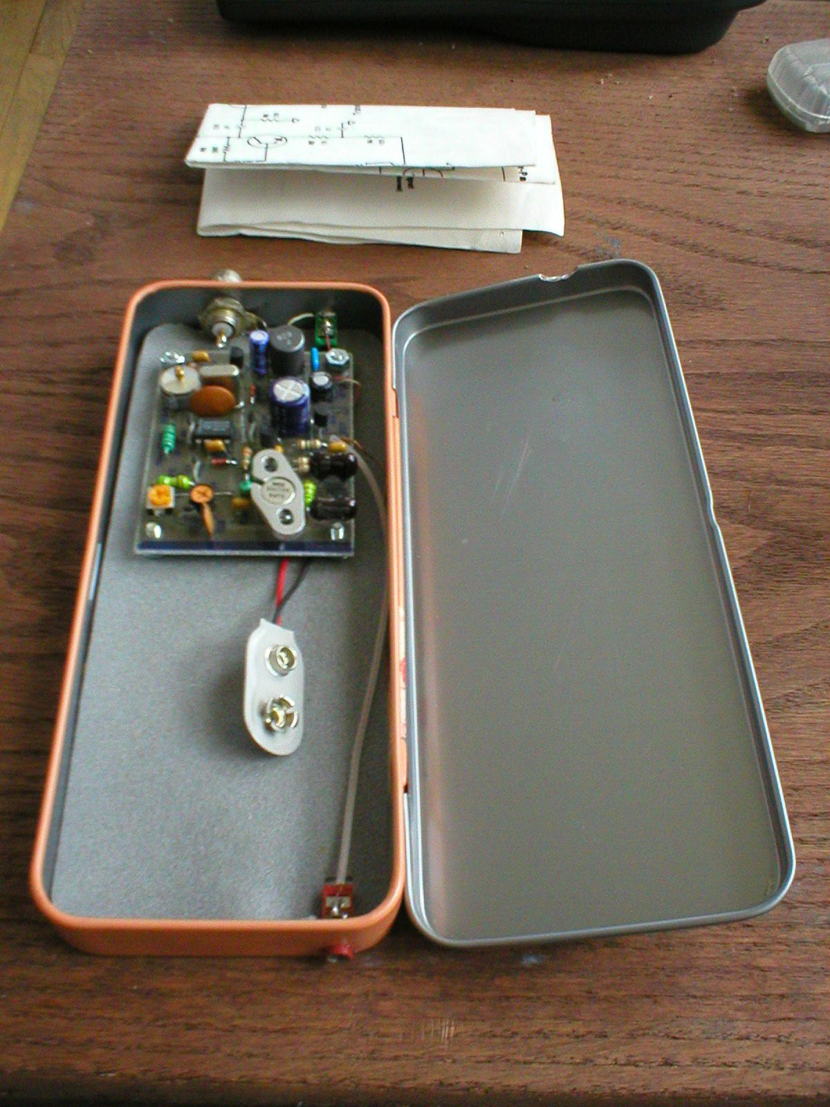 homemade amateur radio telegraphy transceiver for 7 MHz, ca. 250 mW output